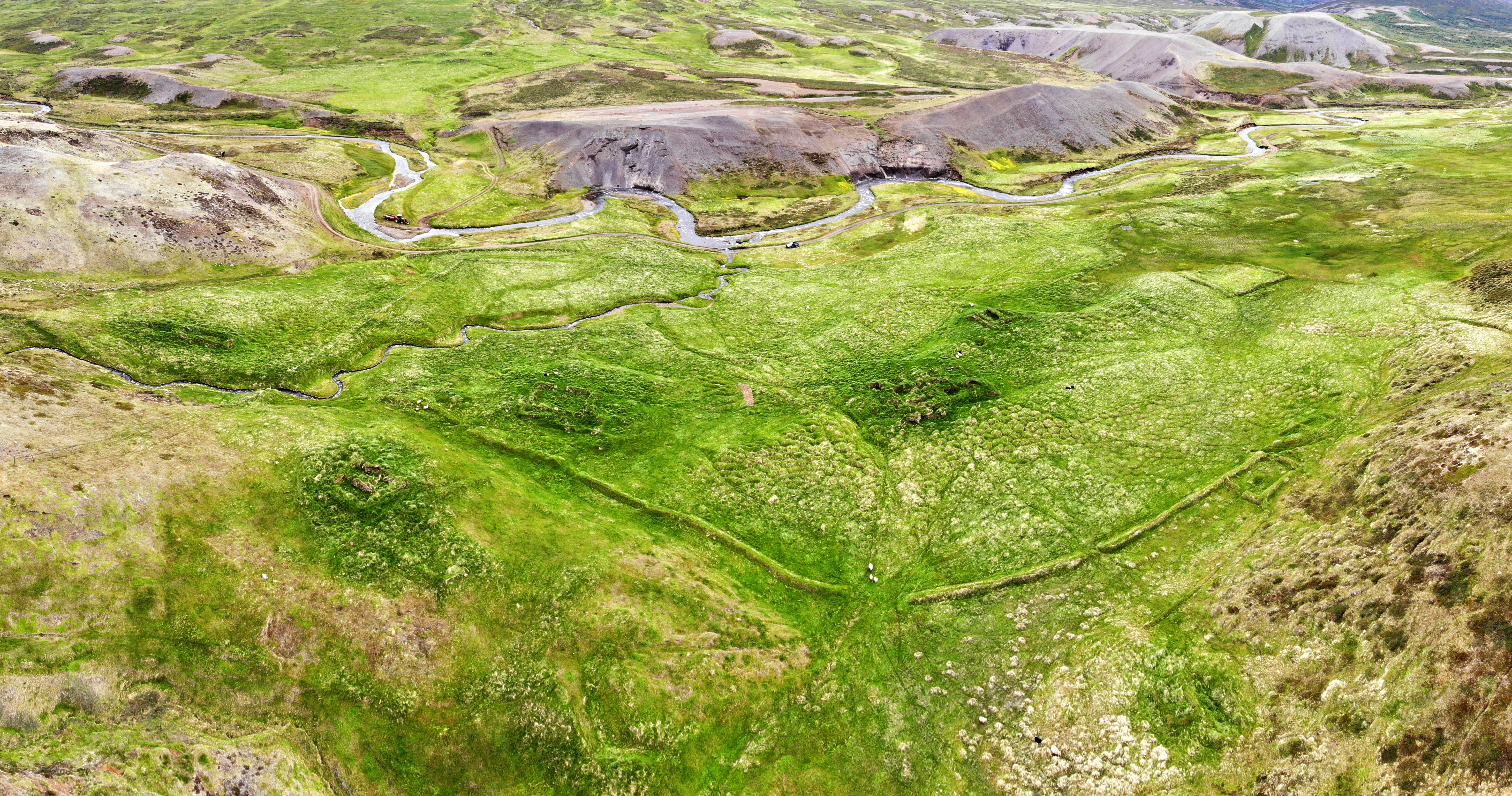 Deserted farm Vestari Krókar in Fnjóskadalur Iceland